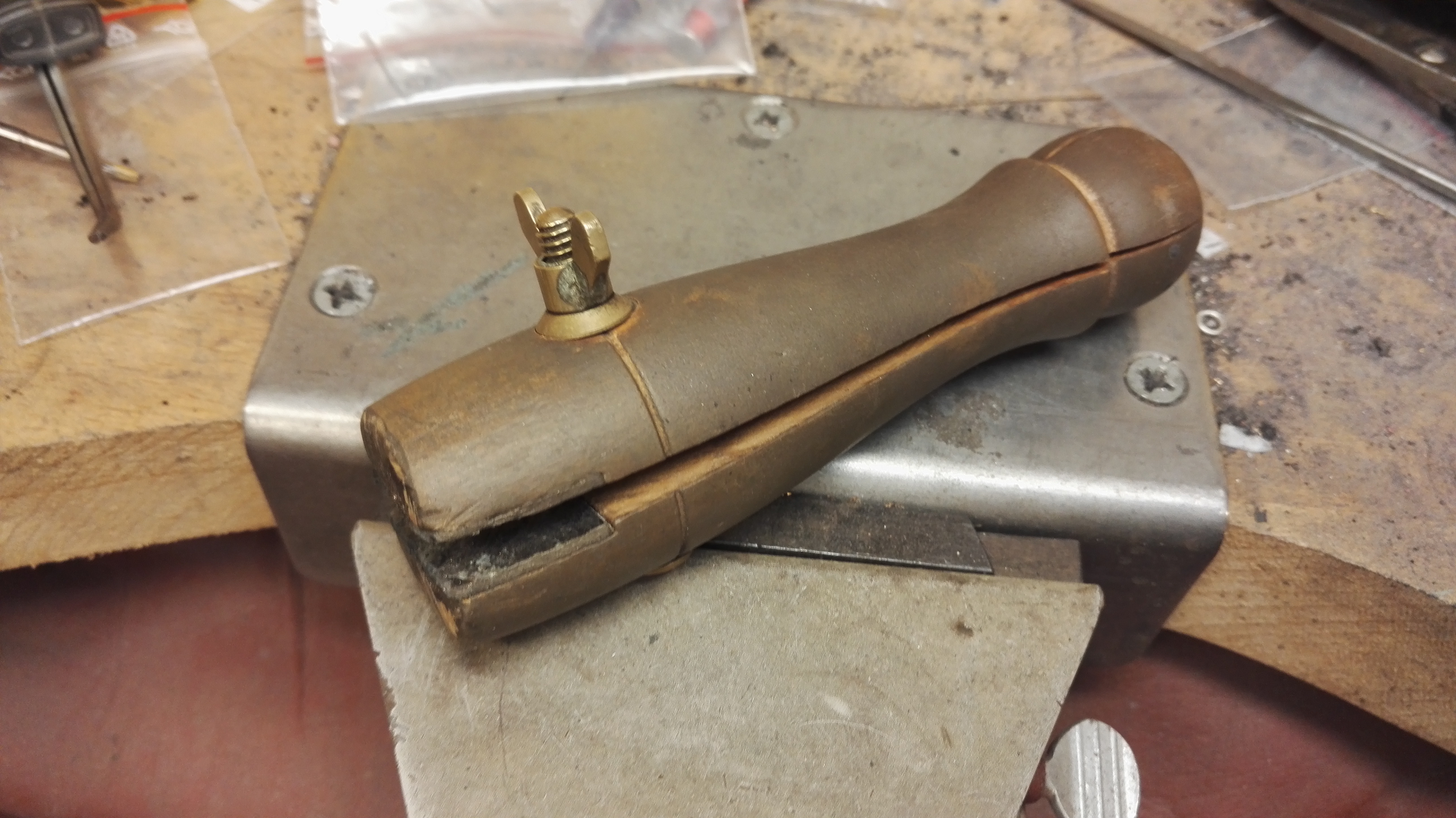 ring holder